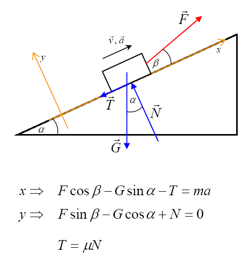 A simple problem on inclined plane (introductory college level). Forces acting on the body (driving force F, weight G, friction T, normal reaction of the plane N). Equations solving the problem.